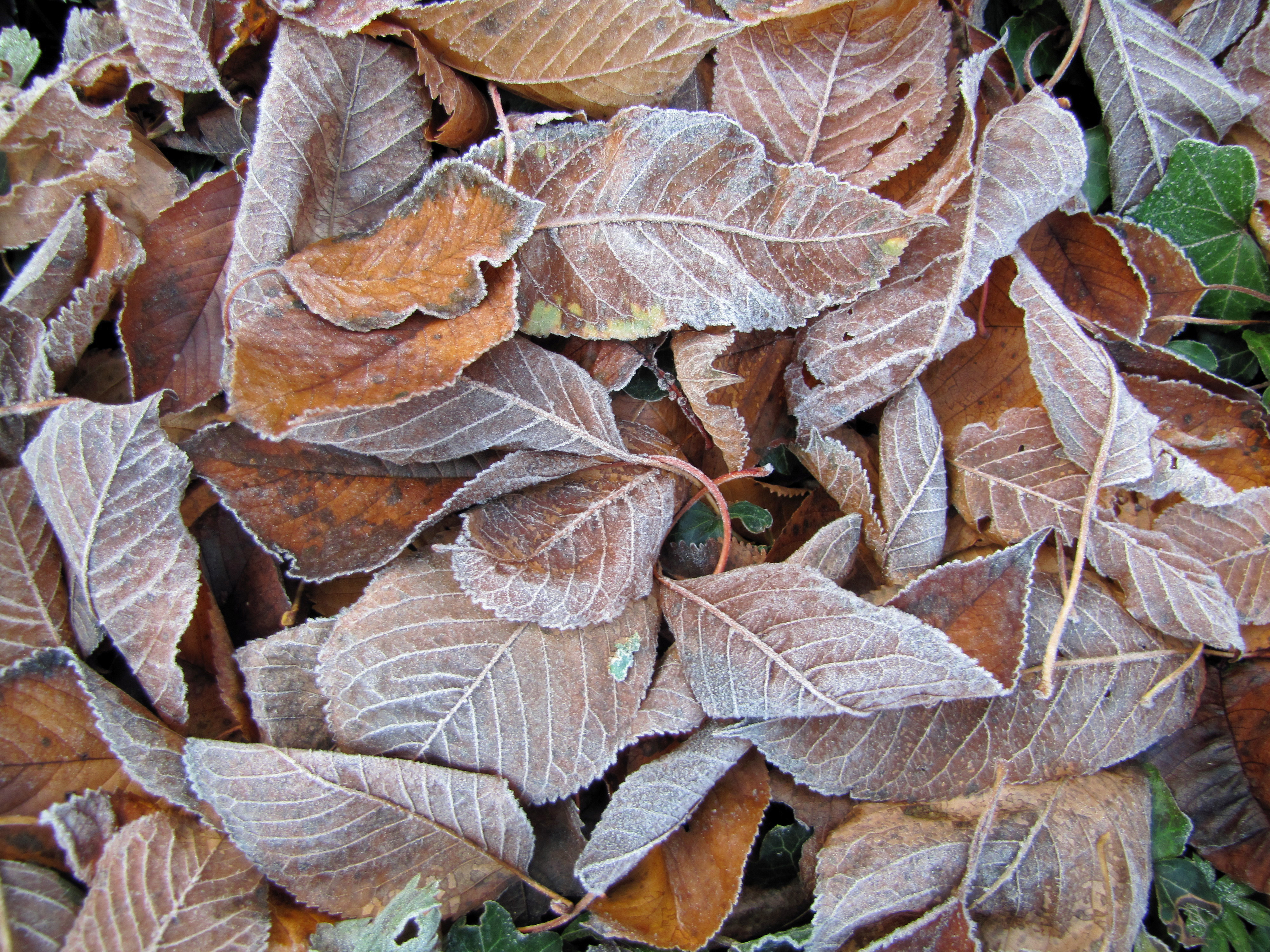 Hoar frost on autumn leaves.